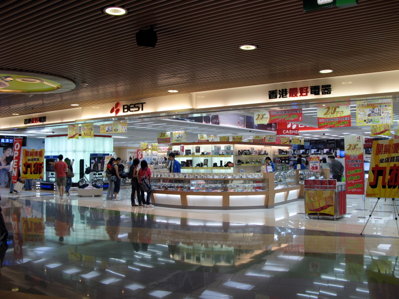 The Best Store in MegaBox